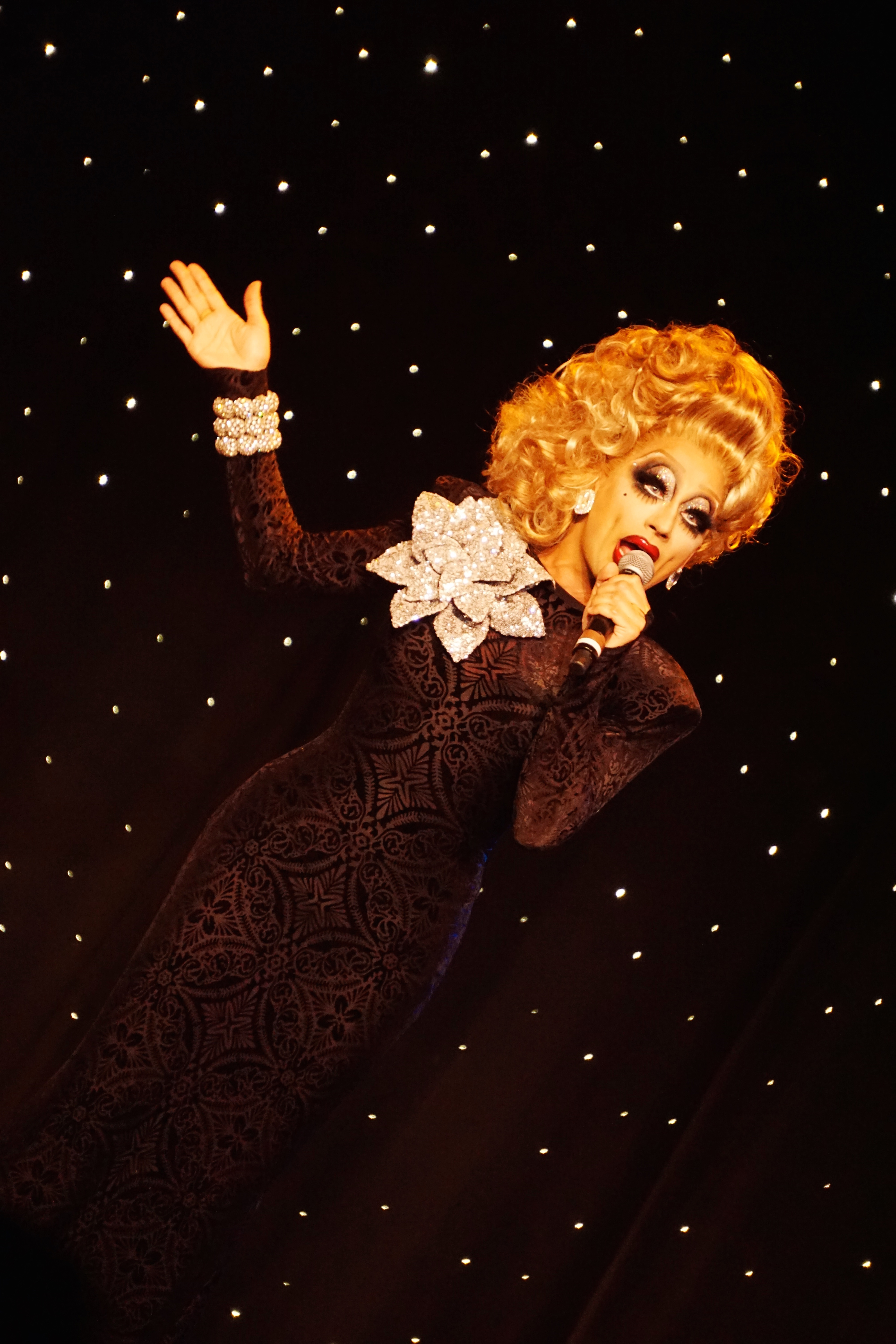 The Winner of the season 6th of RuPaul's Drag Race, Drag Queen Bianca Del Rio performing live onboard Splendour of the Seas during Drag Stars at Sea Europe 2014